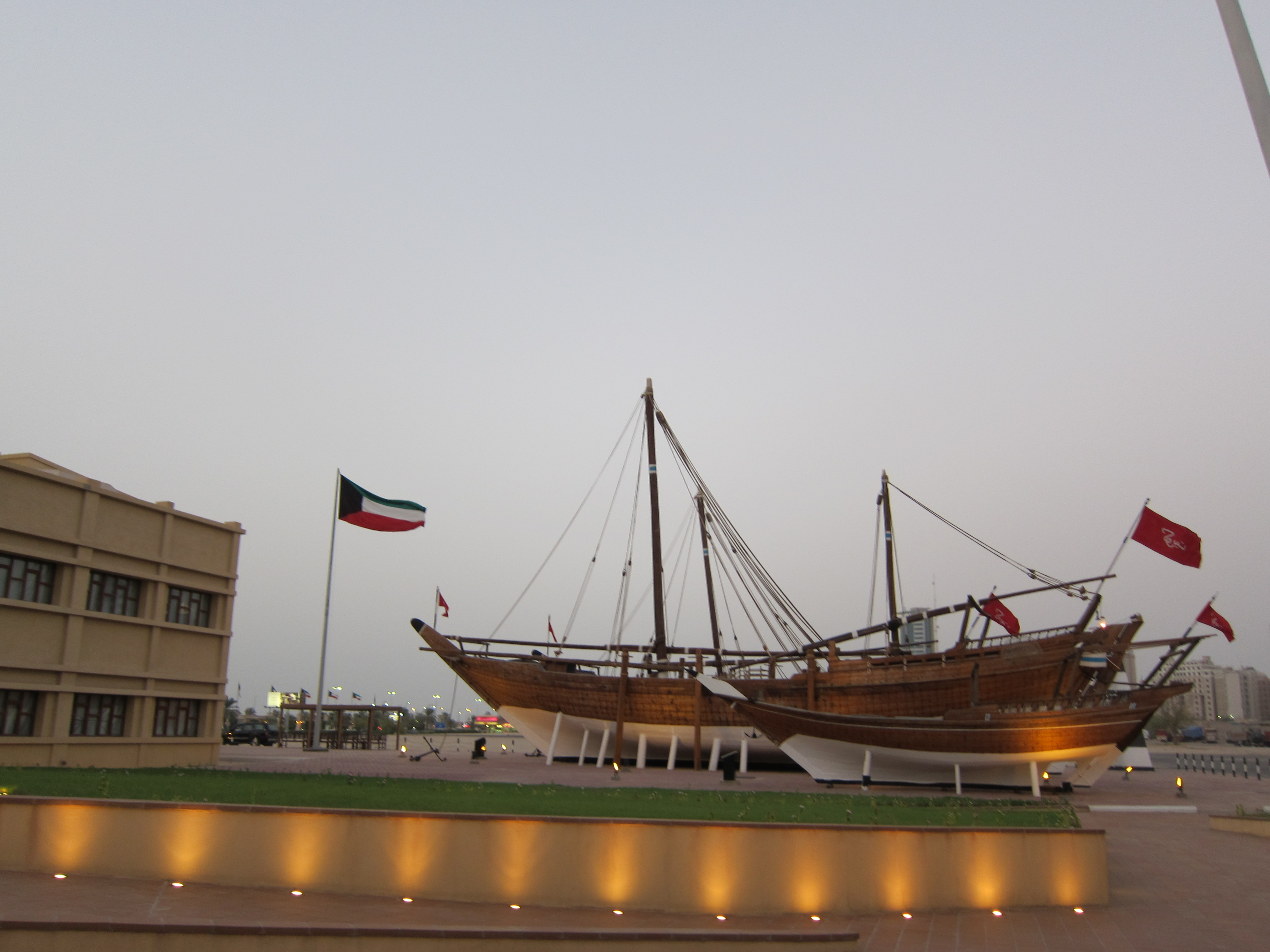 this is a ship in the marinetime museum in kuwait city